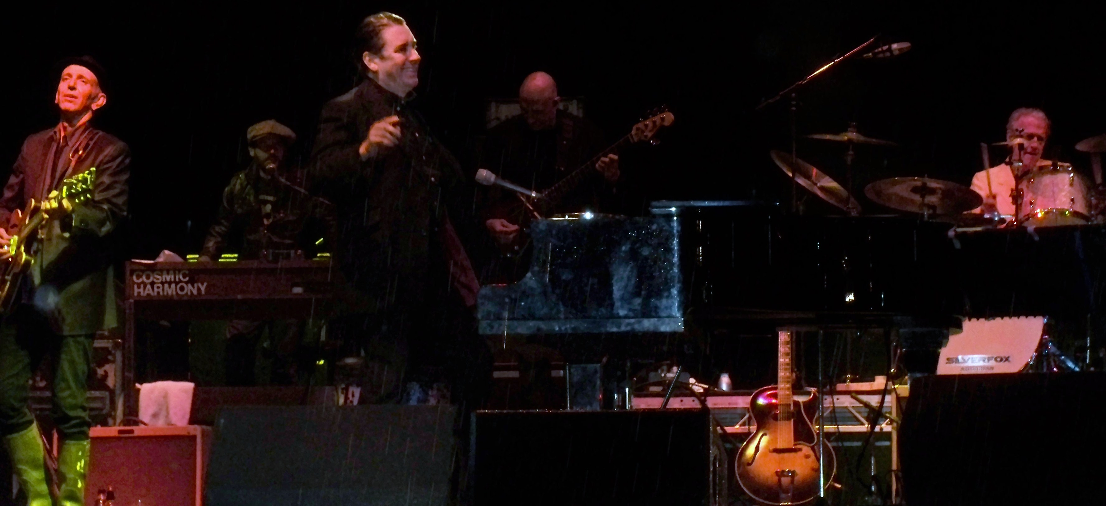 Jools Holland geeing up his band (as well as the crowd) at a rainy Gulfest 2012.